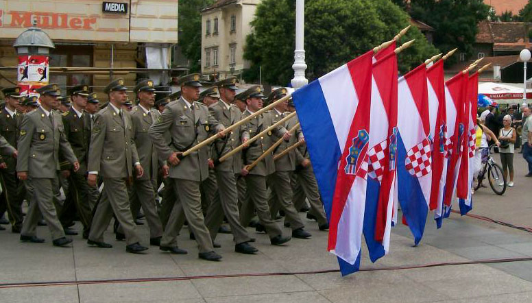 Croatian soliders (Statehood Day, 2007)